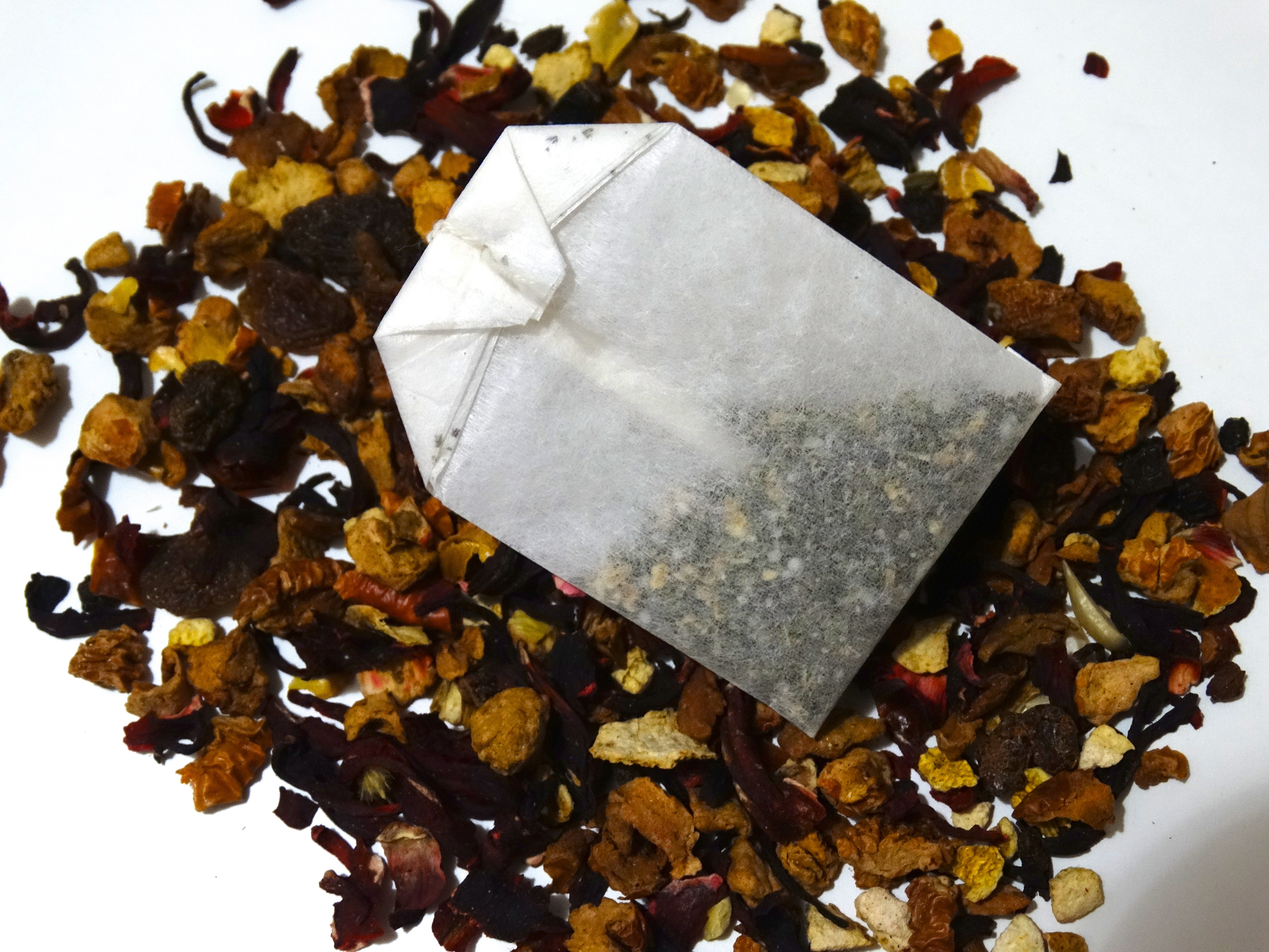 Piràmide d'aliments de l'Empordà